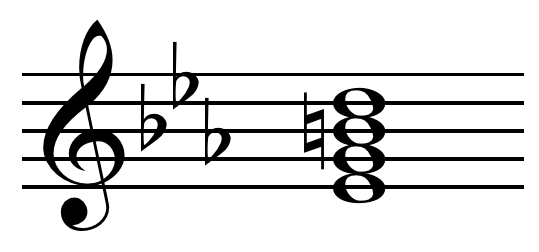 III+7M chord in C minor. Created by Hyacinth (talk) 02:58, 29 November 2010 using Sibelius 5.